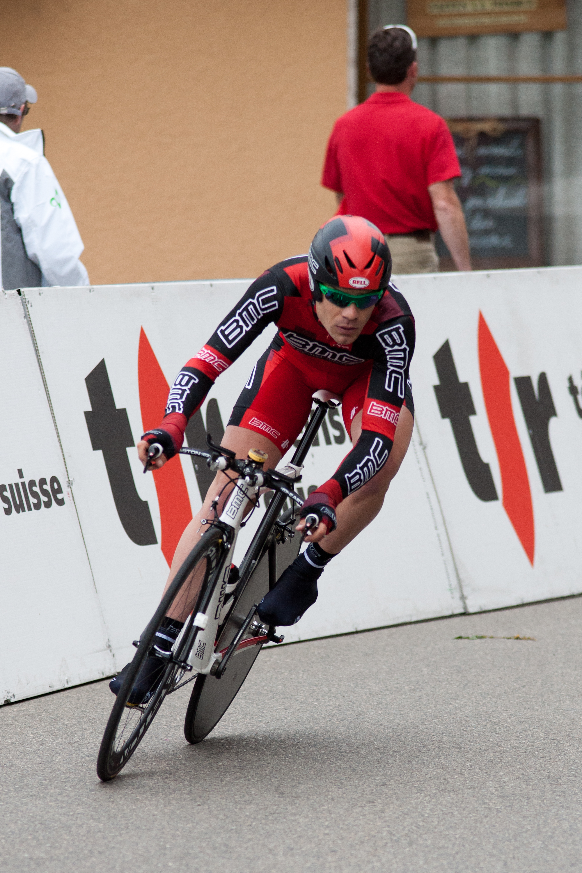 Simon Zahner during the 3rd stage of the Tour de Romandie 2010.